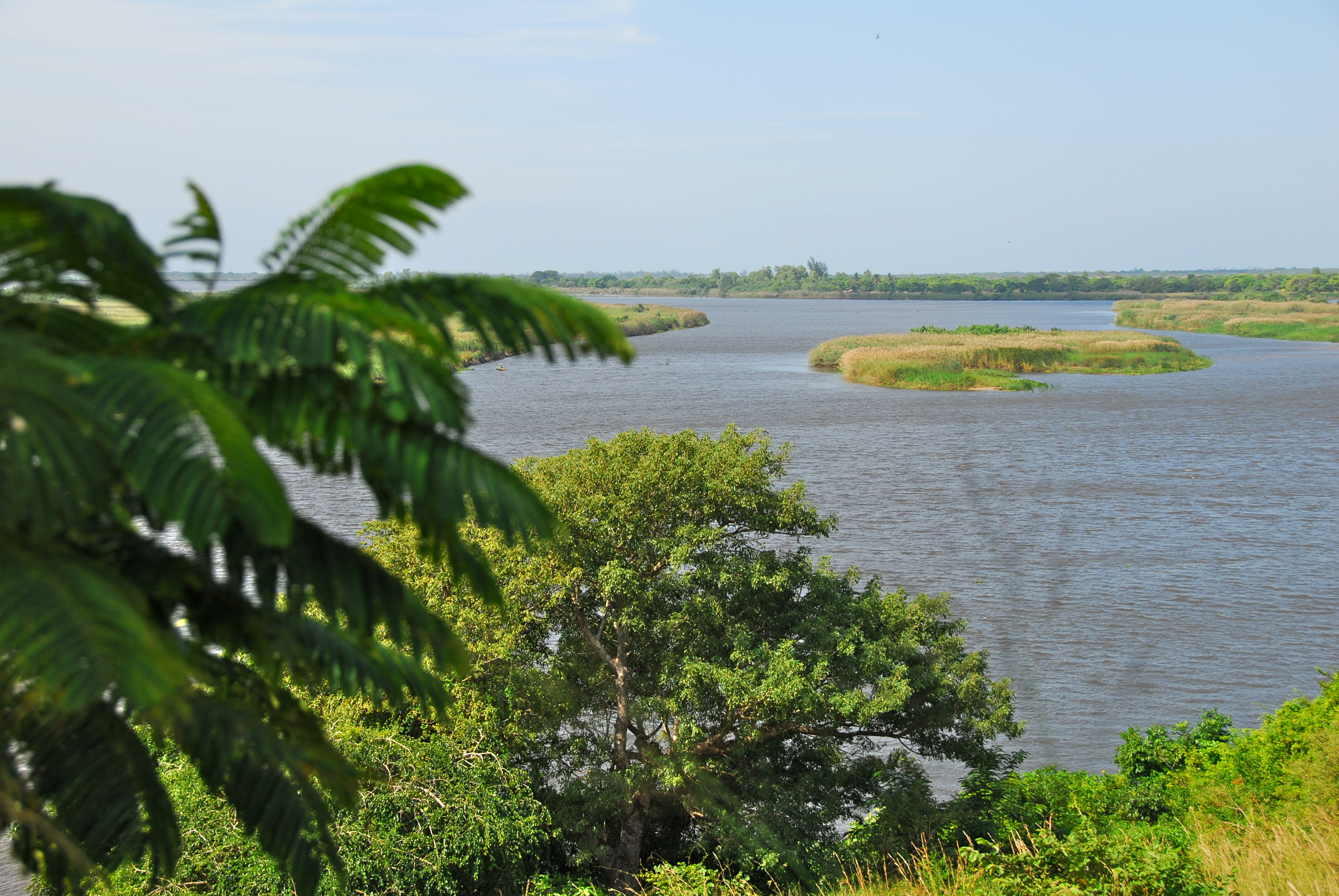 Nkomati River, as seen from Marracuene, Mozambique.